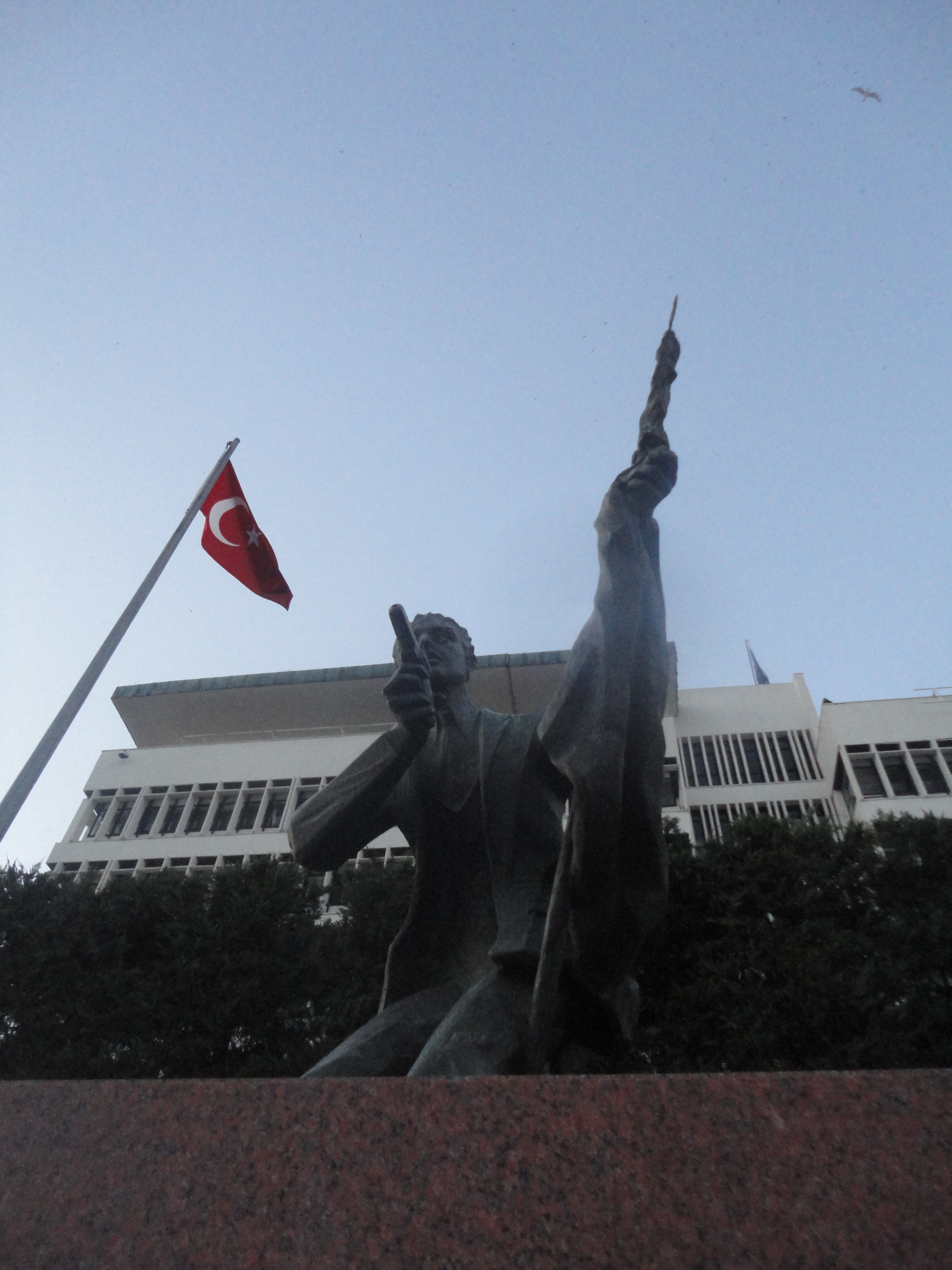 First Bullet Monument of Izmir. Sculptor: Turgut Pura